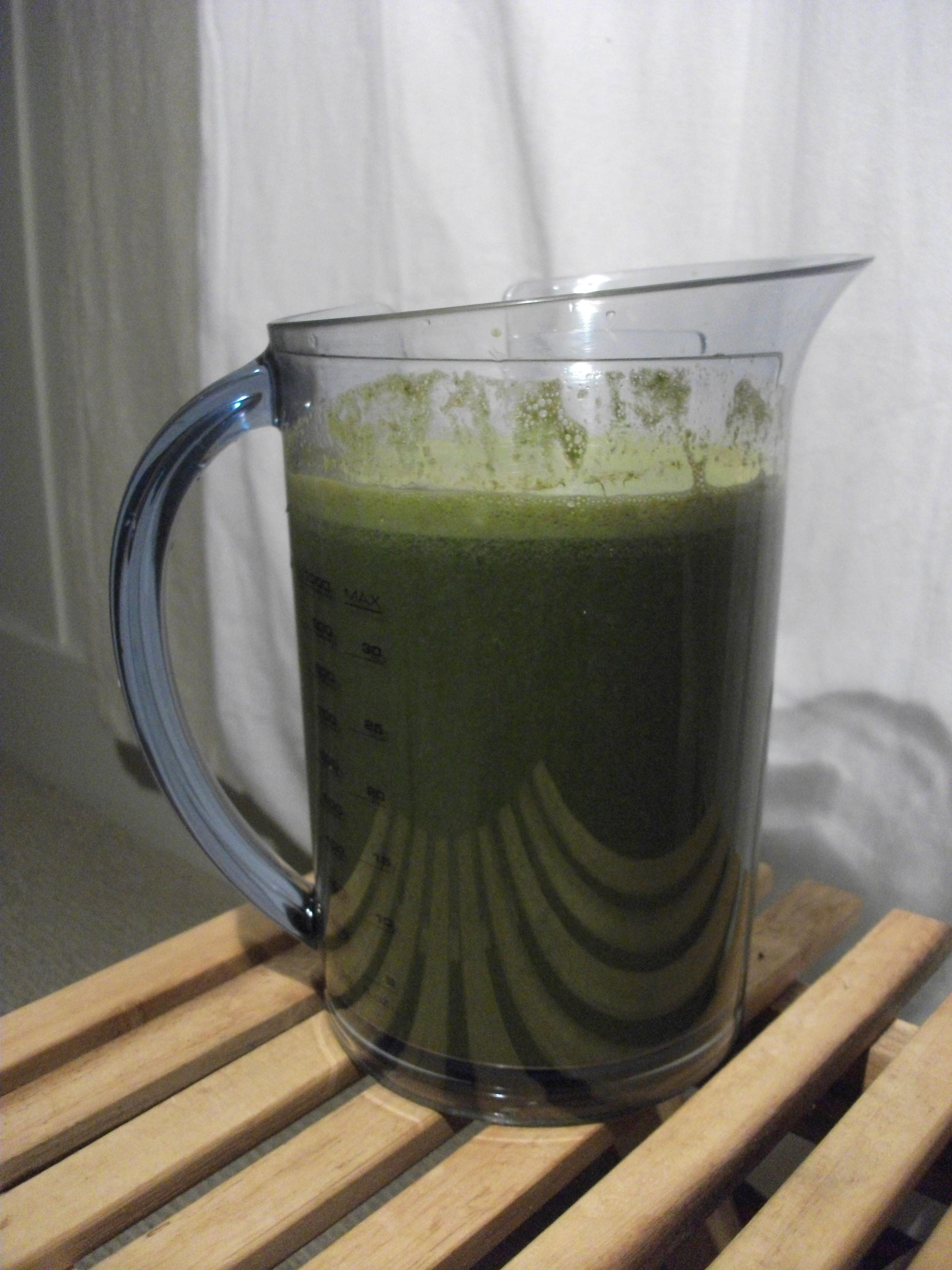 Freshly made green juice created using a Breville centrifugal juicer. Ingredients include Kale, Wheat Grass, Cauliflower, Broccoli, Carrot, Apple, and Lemon.